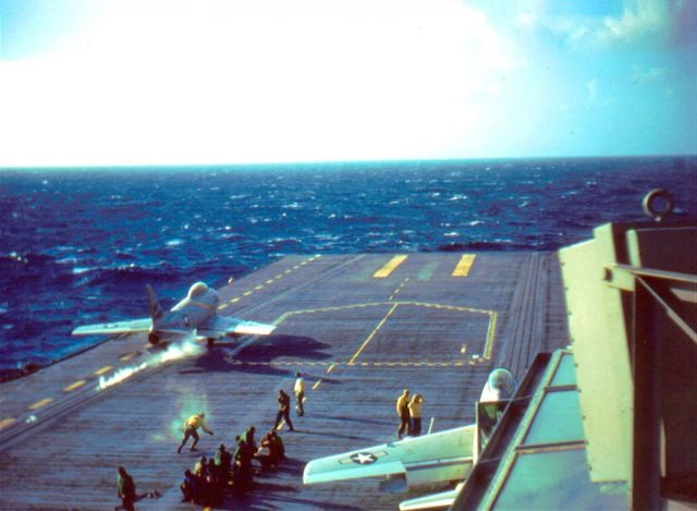 A U.S. Navy North American FJ-3 Fury from fighter squadron VF-33 Tarsiers taking off from the aircraft carrier USS Intrepid (CVA-11) in the North Atlantic during the NATO exercise "Operation Strikeback", September 1957.